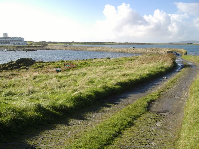 St. Michael's Isle causeway, Isle of Man Looking towards the Langness peninsula with the Golf Links hotel visible.